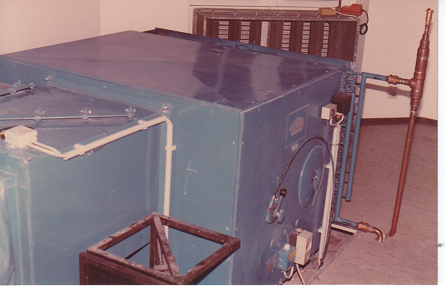 Air to water cooling system early installation laserscape Cassel